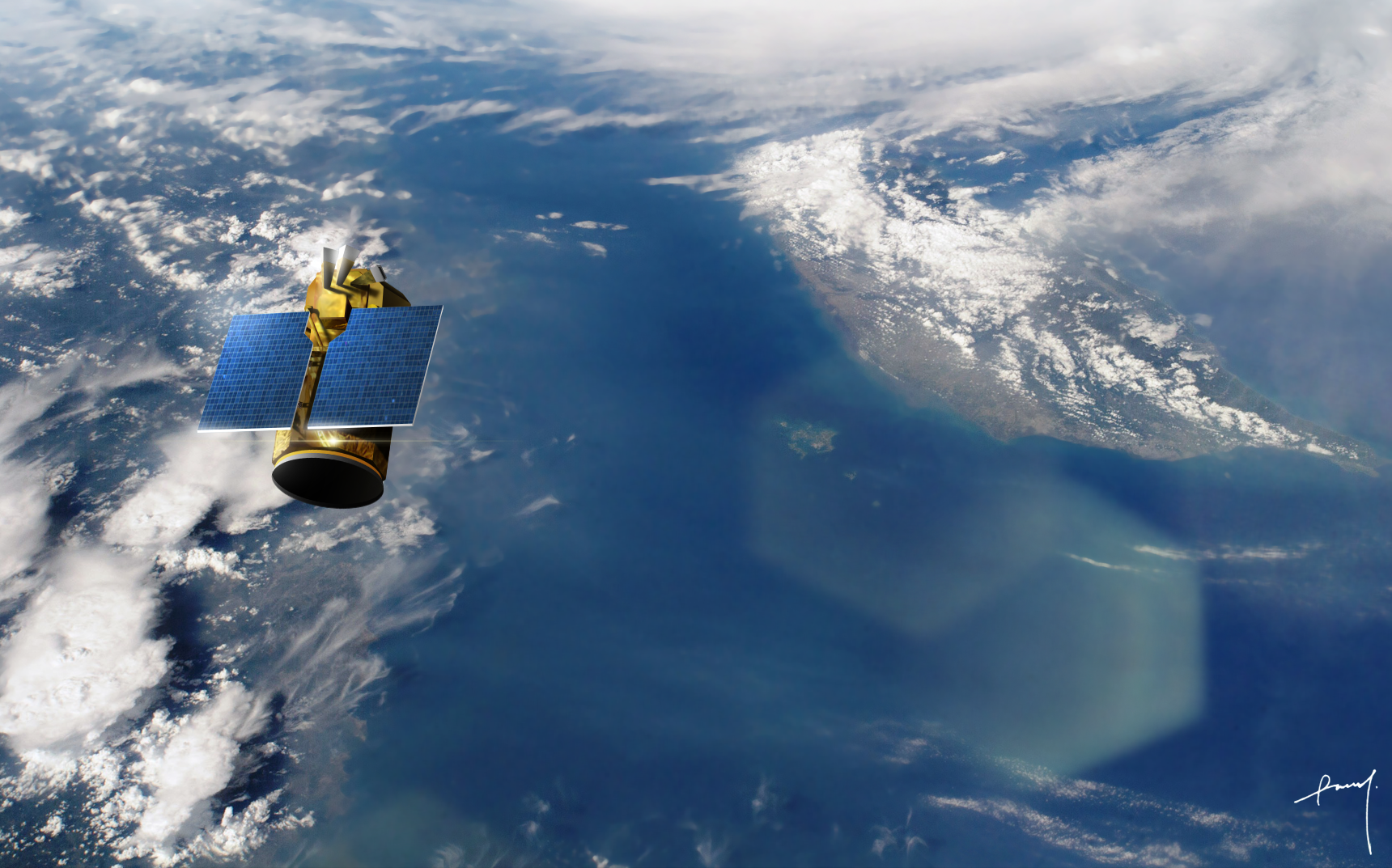 My depiction of the earth observation satellite FORMOSAT-5 in space, which is launched in August 2017.